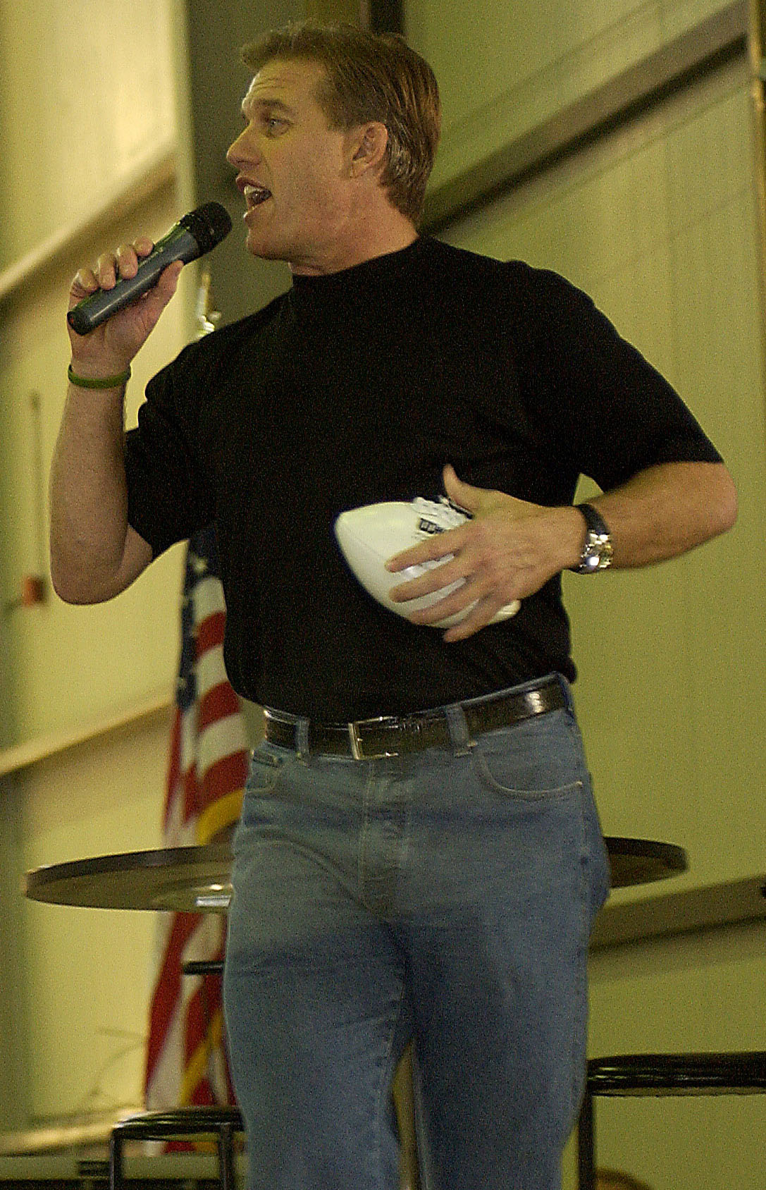 Former American football player John Elway speaking to United States troops while preparing to throw a football.